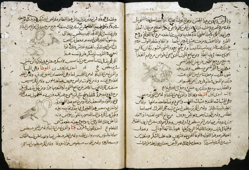 Pages from Kyranides by Hermes Trismegistus. Arabic text with pen drawings. Bird with scorpio. Bird with snake. Figure holding a bird. Shelfmark: MS. Arab. d. 221 . fol. 067v-068r